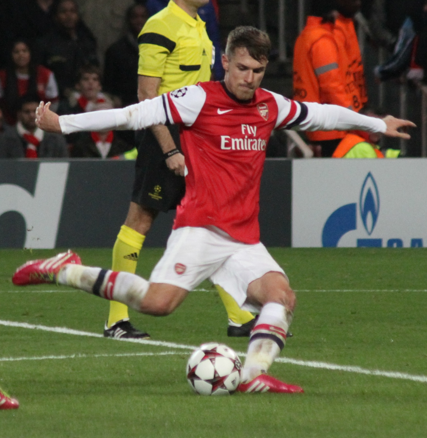 Aaron Ramsey taking a free kick for Arsenal in a Champions League match against Marseille on 26 November 2013.